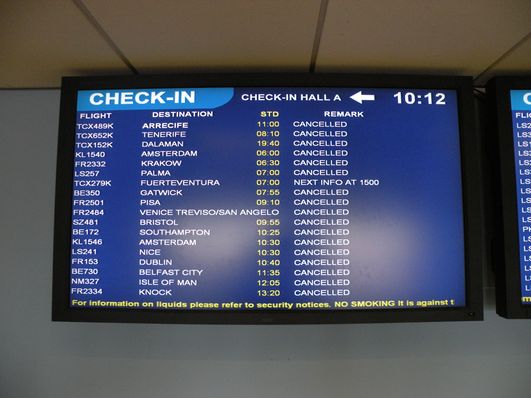 The status of all the flights from Check-in hall A at Leeds Bradford International Airport during the eruptions of Eyjafjallajökull in April 2010. All but one is cancelled and the status of that sounds somewhat dubious. Taken on Saturday the 17th of April 2010.